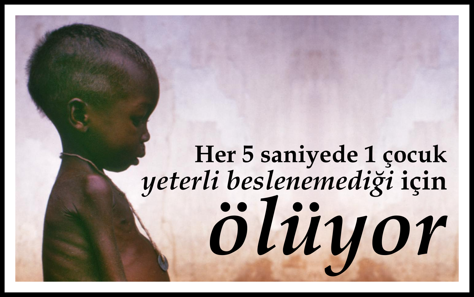 1 child dies every 5 seconds as a result of malnutrition